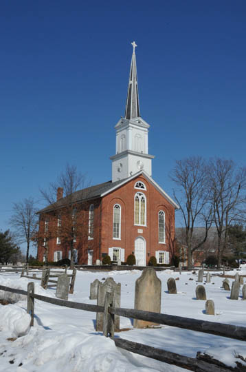 FOUNDED BETWEEN THE YEARS 1680 AND 1700 THE SECOND CHURCH WAS BUILT IN THE YEAR 1769 THE THIRDAND CURRENT CHURCH WAS BUILT IN THE YEAR 1857